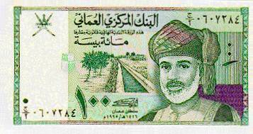 100 baisa (obverse)